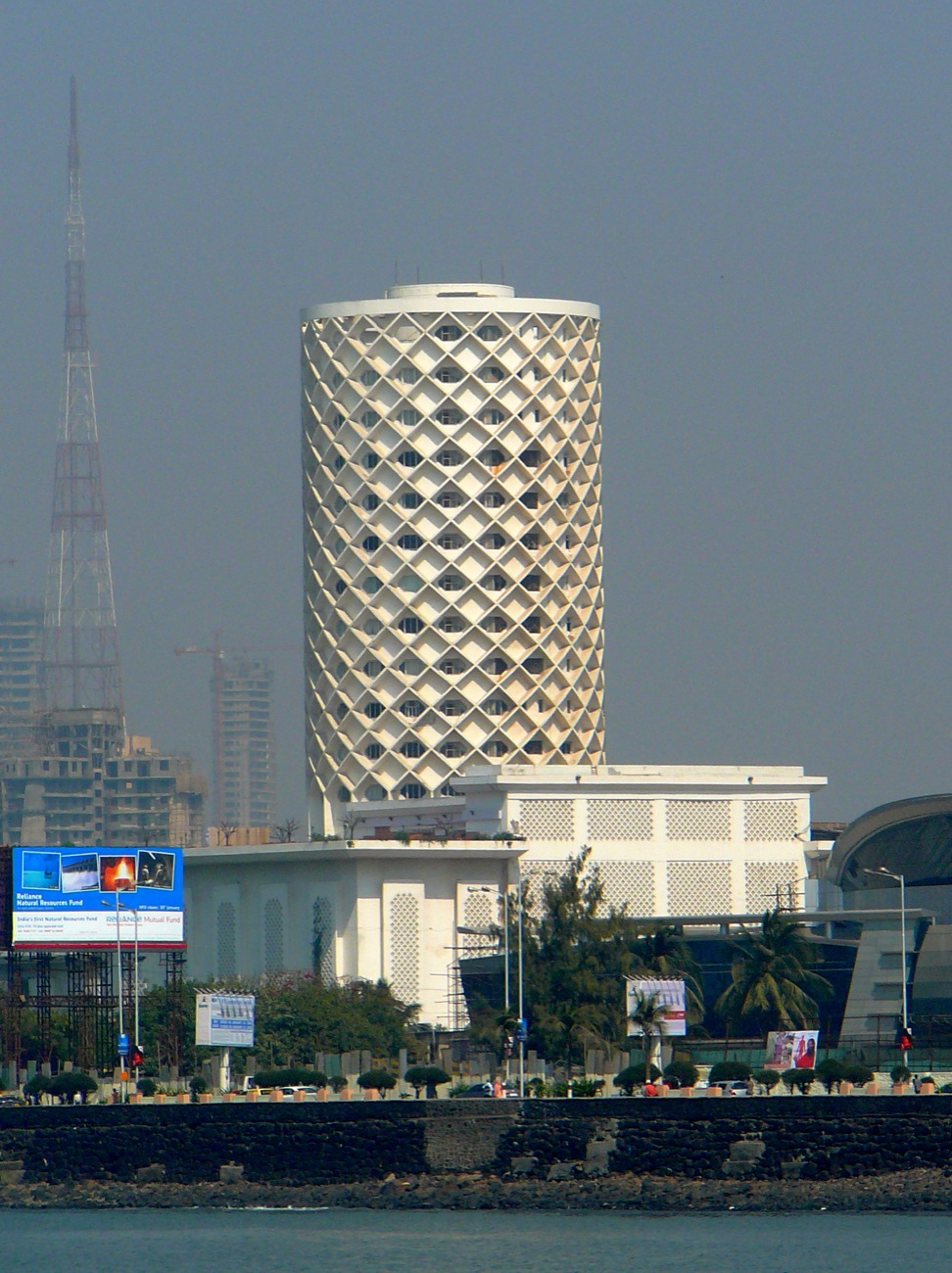 Nehru Centre was conceived in 1972 in Bombay, India. It includes the Nehru Planetarium: A centre for scientific study of astronomy and for meeting of scientists and scholars for discussions and lectures